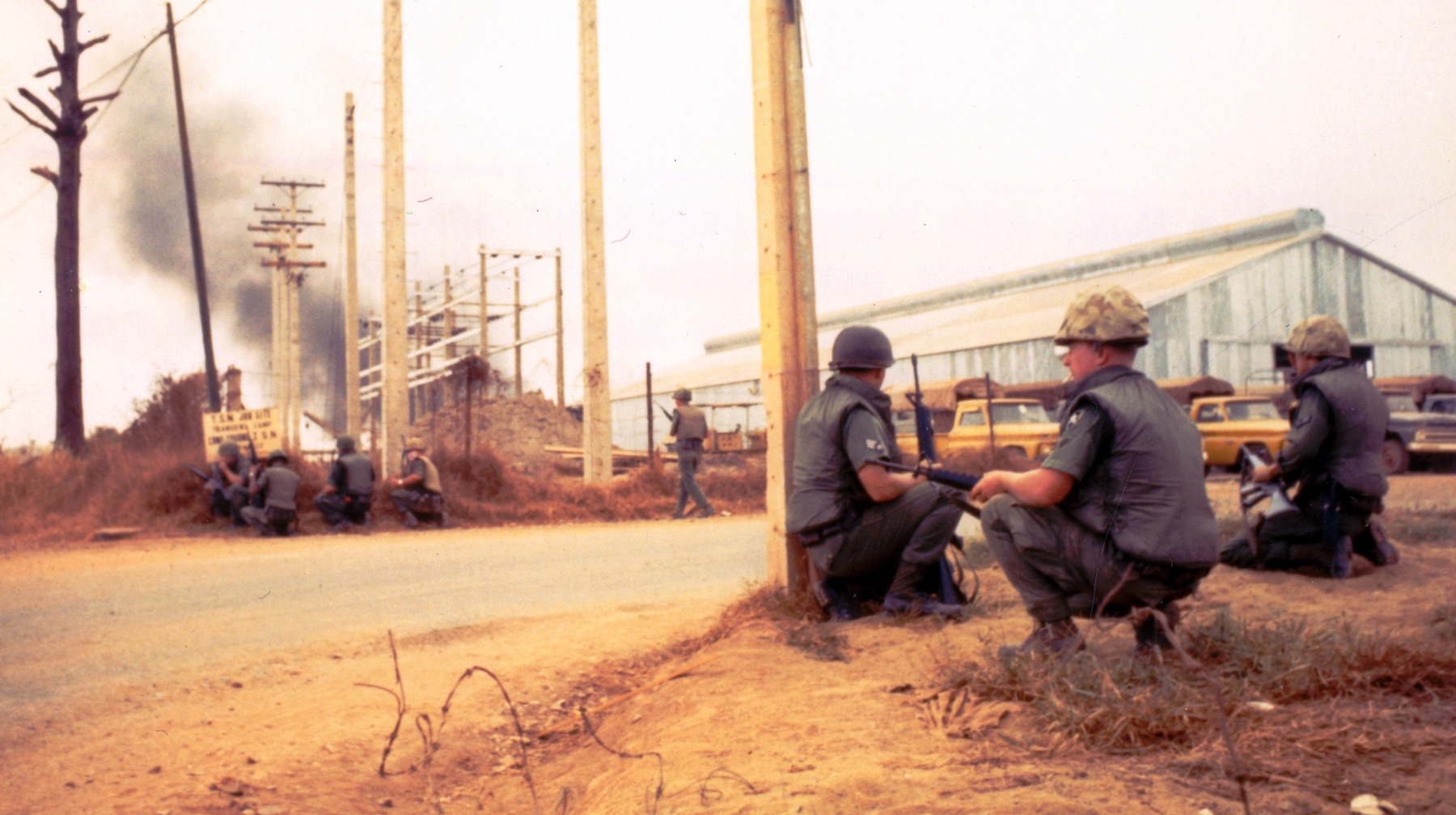 U.S. Air Force Security Police in combat at Tan Son Nhut during the Tet Offensive in 1968. Enemy troops had breached the perimeter and made it onto the runway. After intense fighting that lasted through the night, the Security Police and U.S. and South Vietnamese Army troops repelled the enemy.